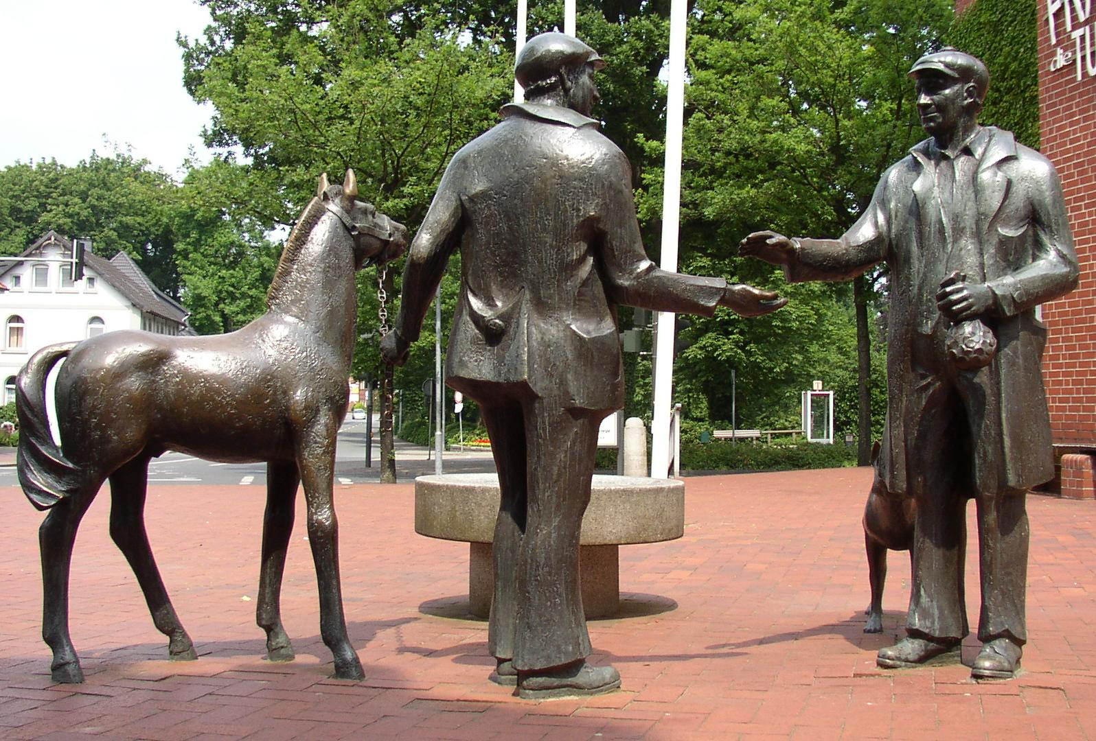 Fountain „horse dealers“ by Claus Homfeld in Zeven in Lower Saxony, Germany